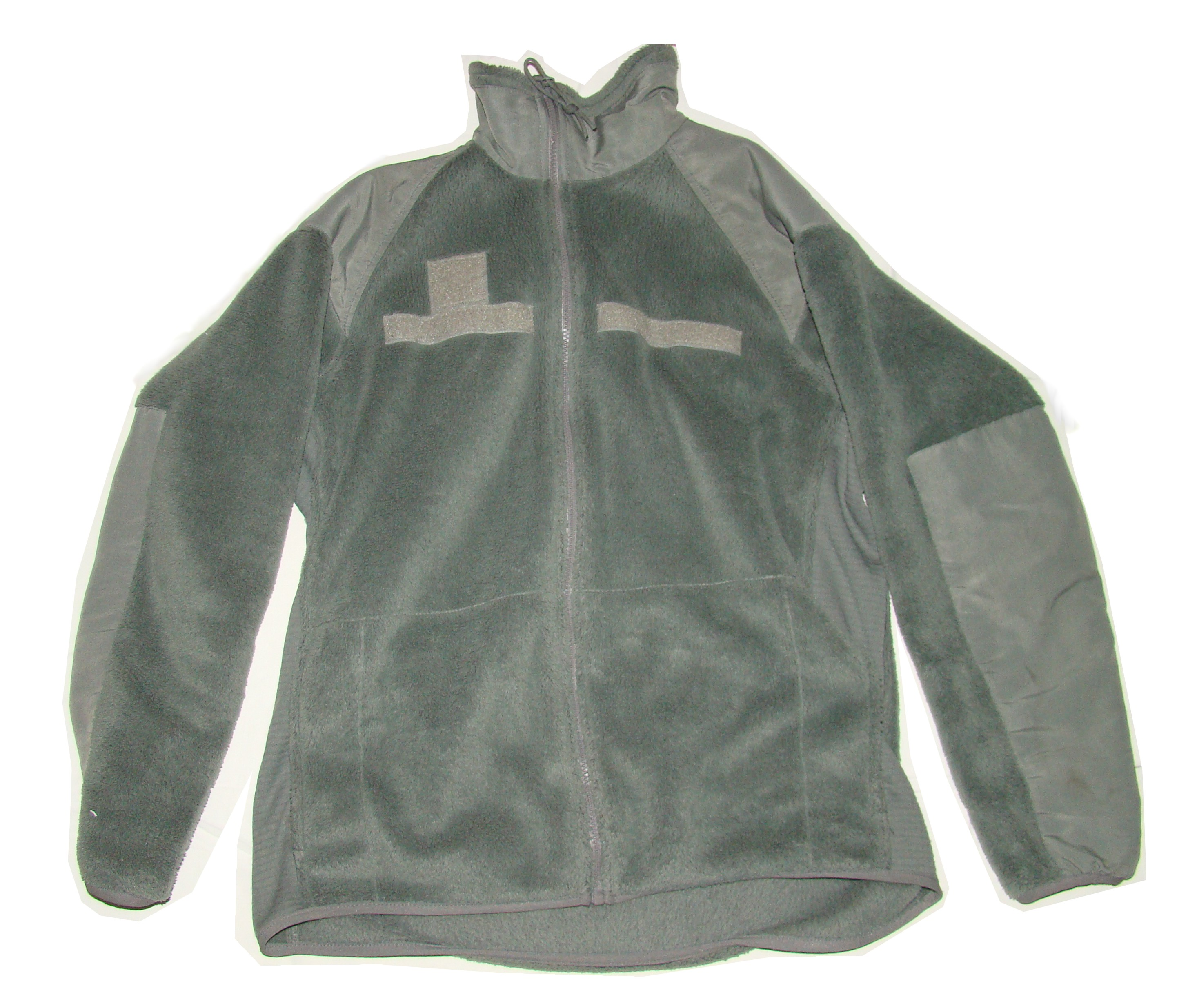 Level 3 ECWCS gen. III: Fleece, Cold Weather, Jacket